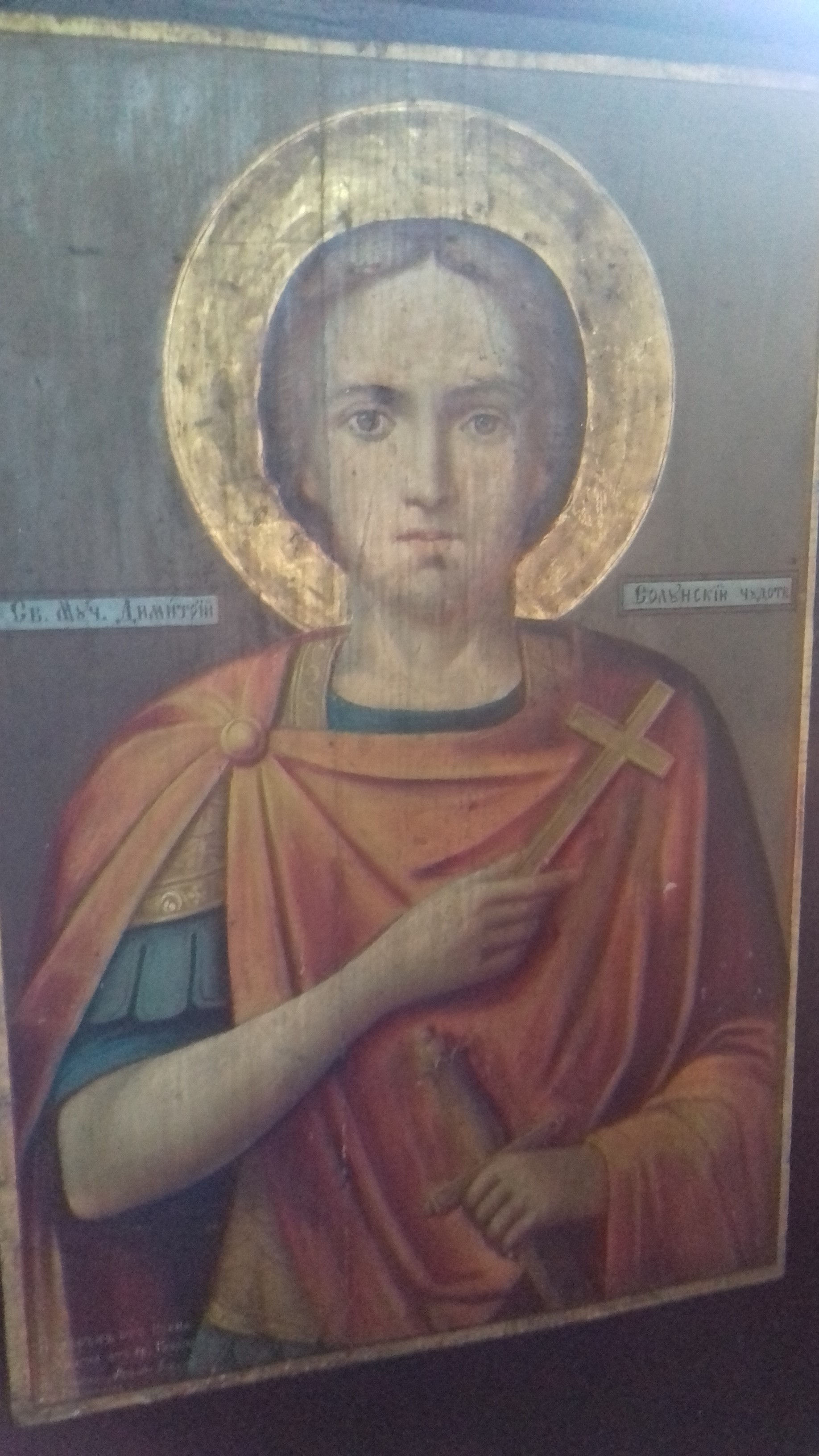 Saint Demetrius Icon in Glozhene Monastery 1902